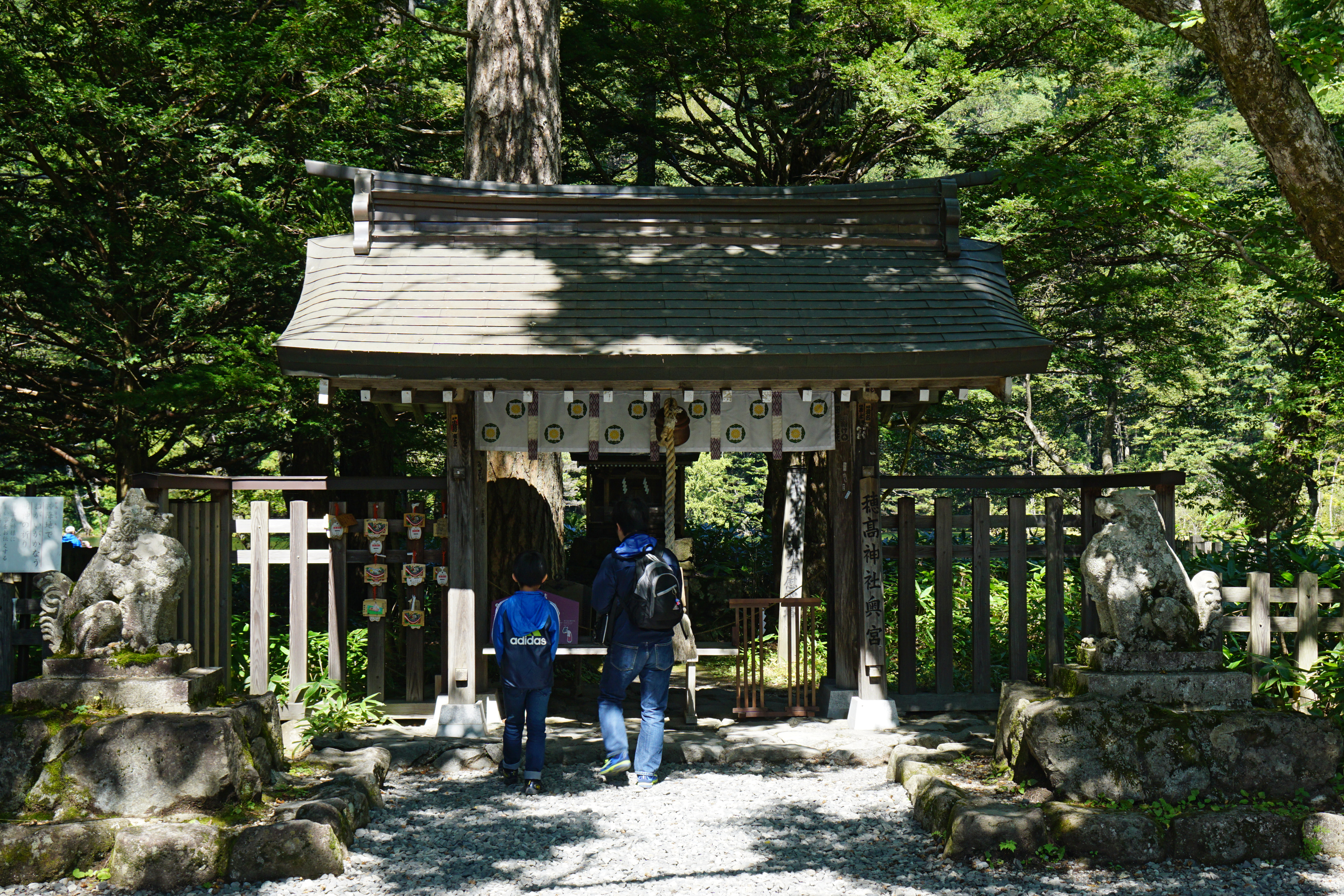 Hotaka-jinja Okumiya in Matsumoto, Nagano prefecture, Japan